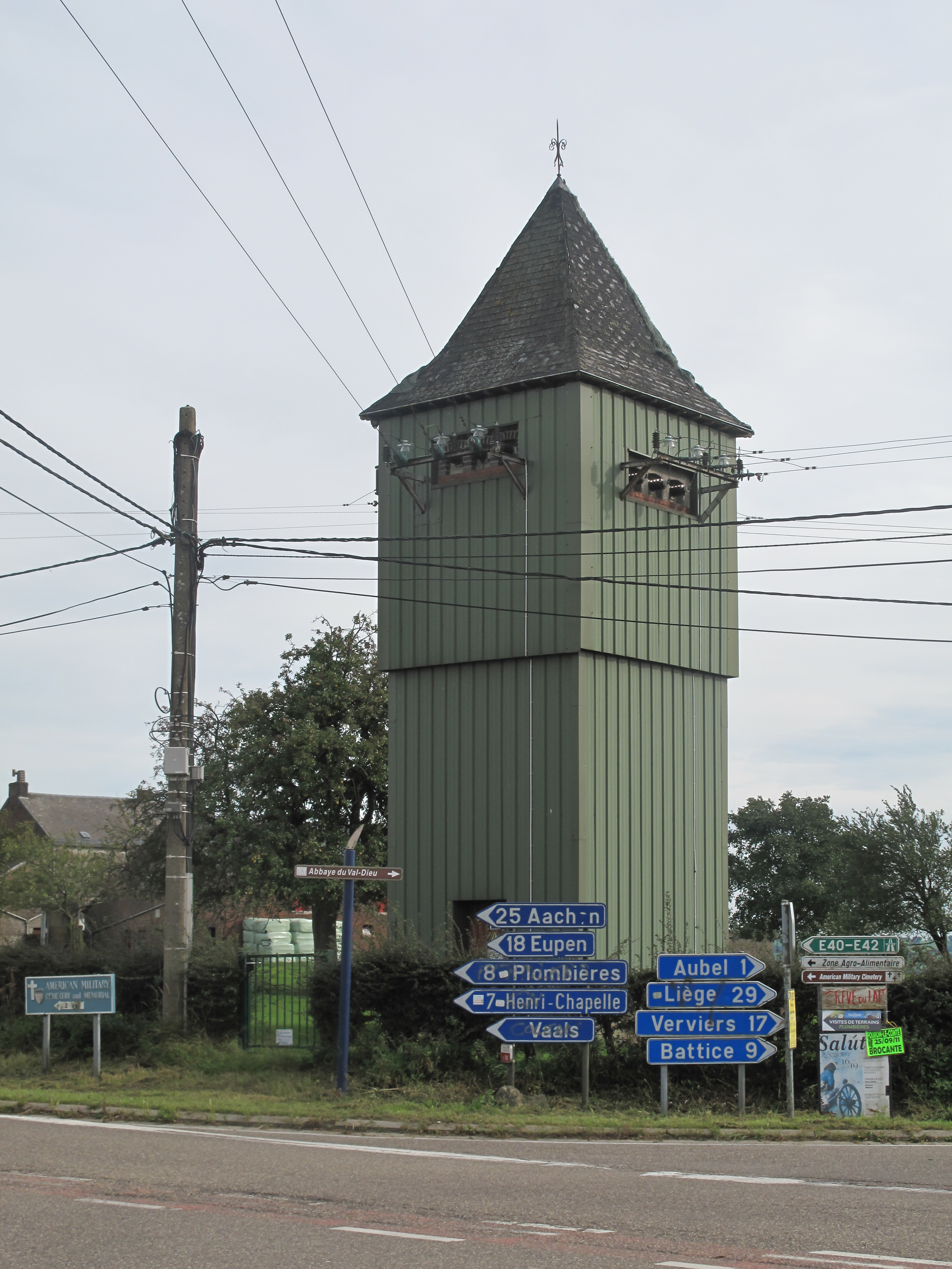 Hagelstein, electrical substation